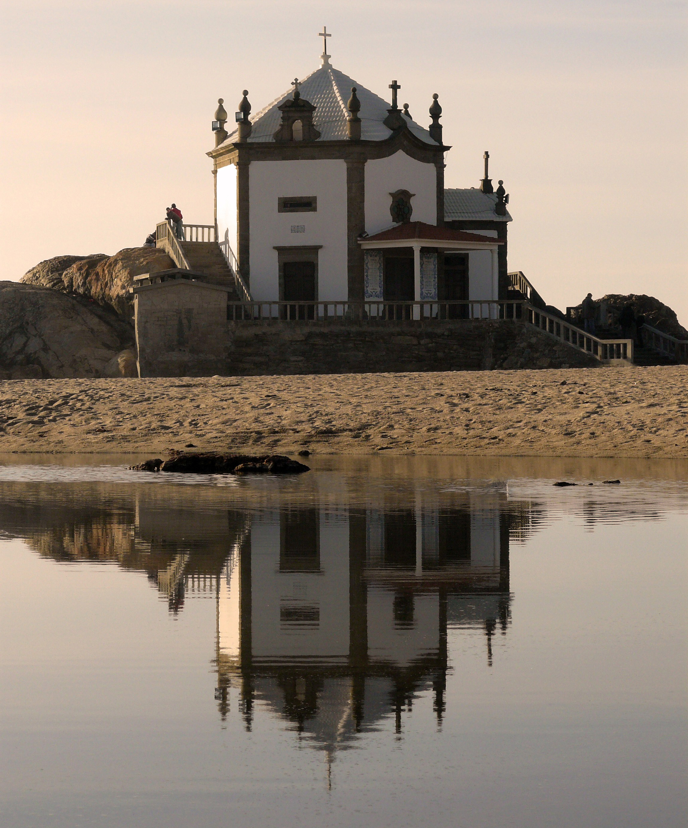 This file was uploaded for Wiki Loves Monuments in Portugal with the unique identifier 97019909.